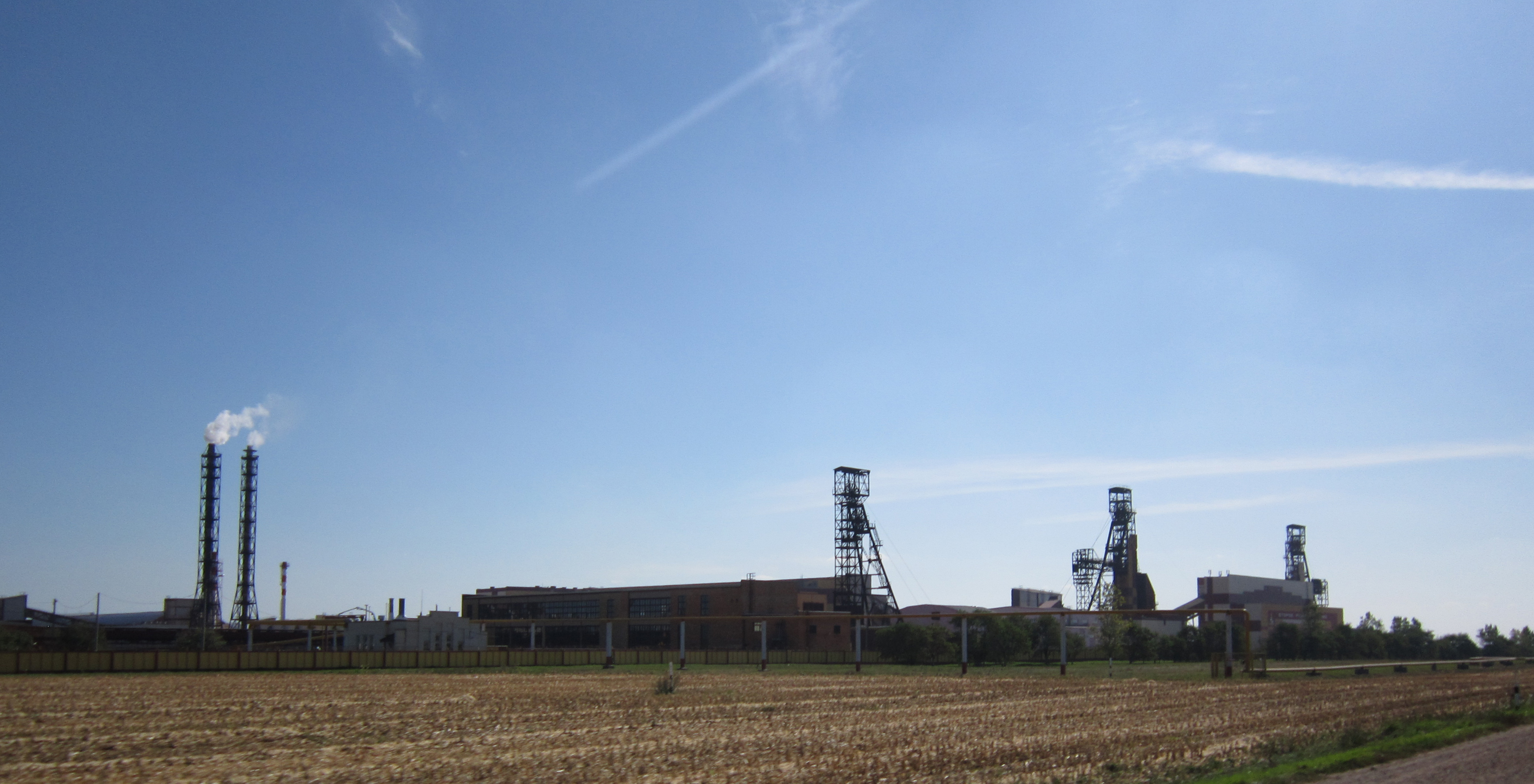 Potash Mine in Salihorsk (Soligorsk) in Belarus